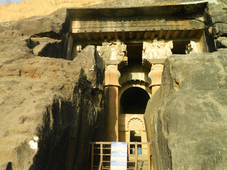 Bedse caves,Kamshet,Pune.